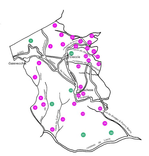 toponymie casevecchie